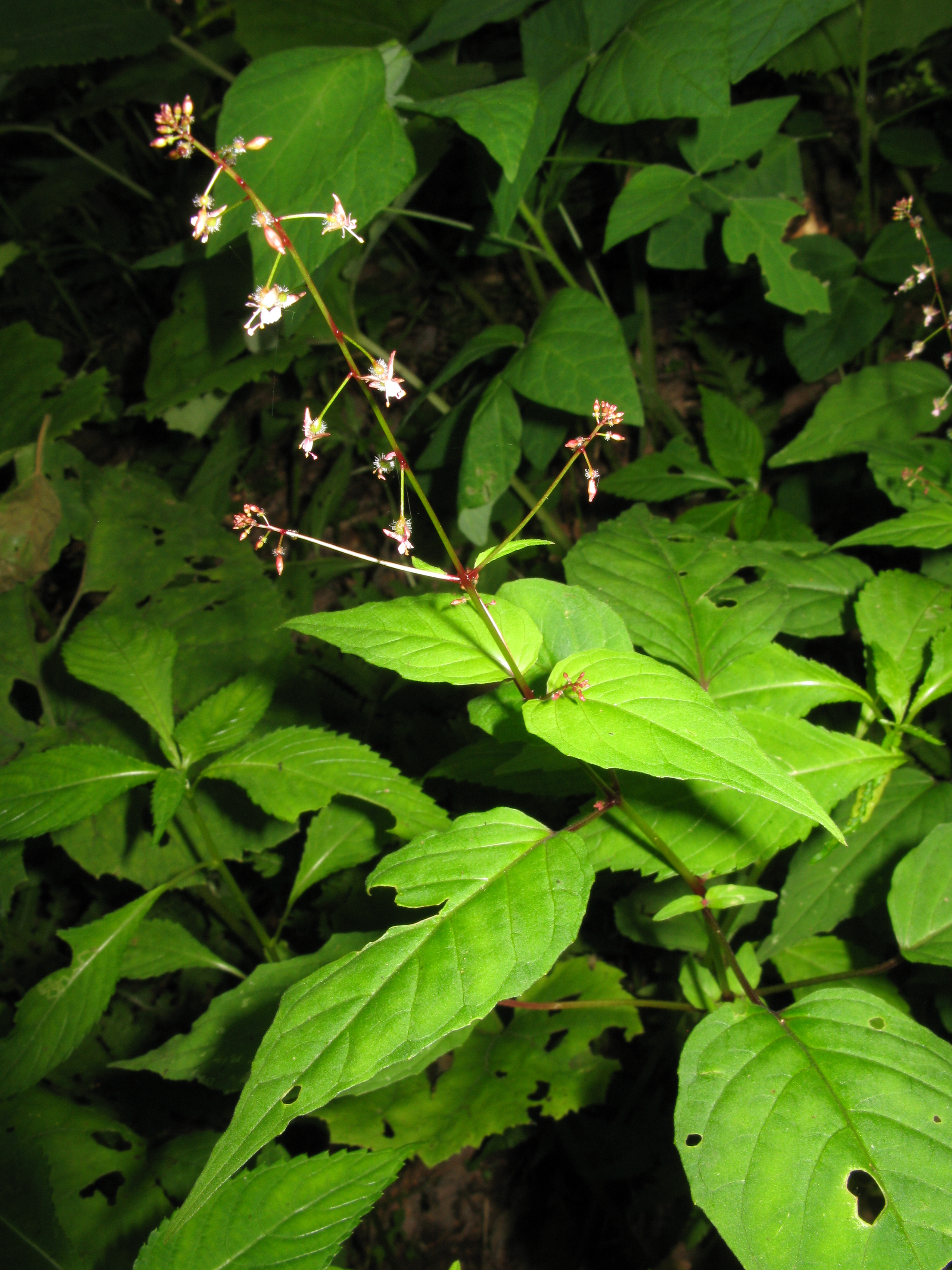 Circaea erubescens, Aizu area, Fukushima pref., Japan